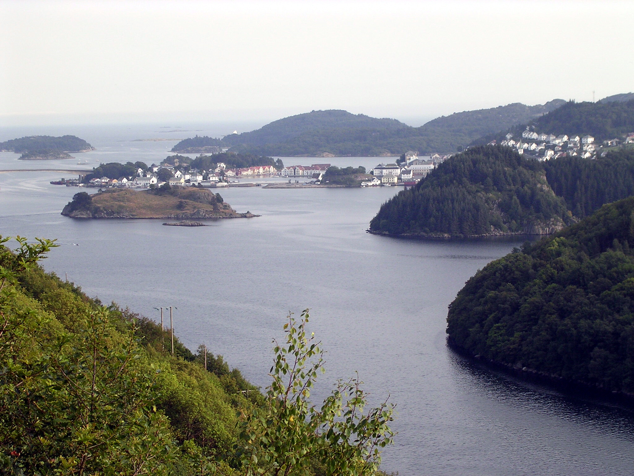 Farsund, a city in Norway seen from Sellegrodsfjorden in north.